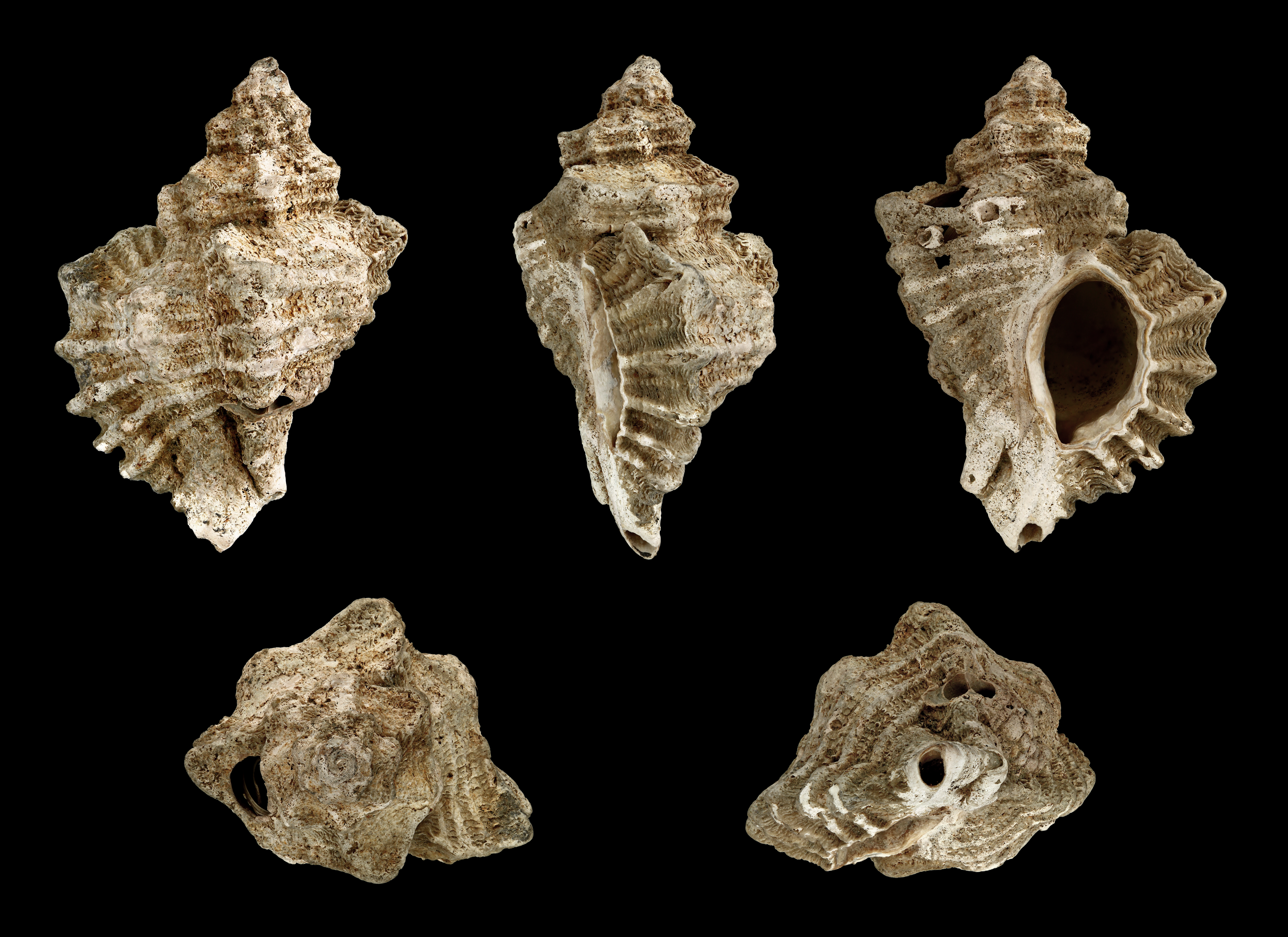 Ocenebra erinaceus Linné, 1758, European Sting Winkle, Length 3.3 cm; Pliocene; Bibbiano, Emilia-Romagna, Italy; Shell of own collection, therefore not geocoded. Dorsal, lateral (right side), ventral, back, and front view.